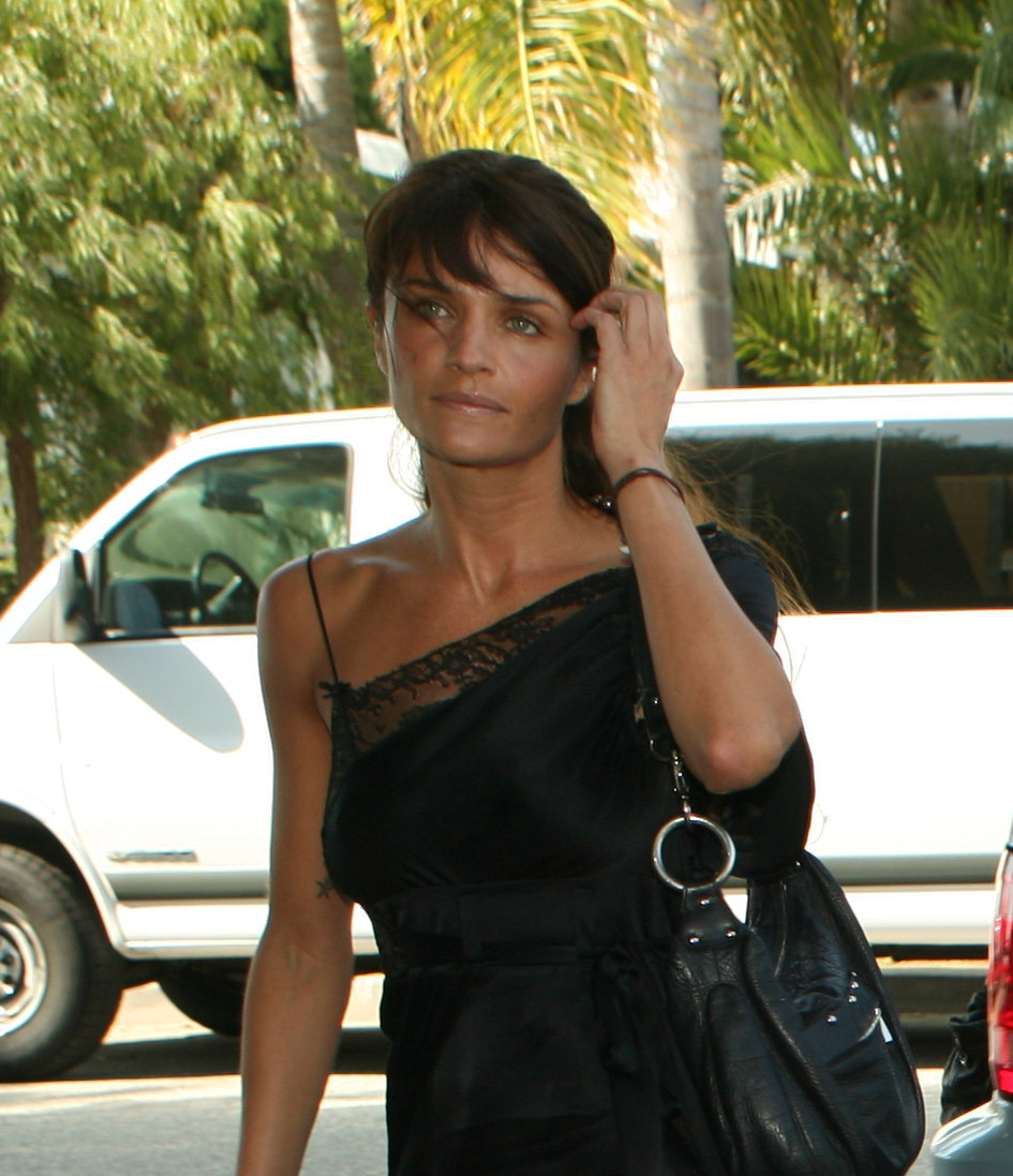 Danish supermodel Helena Christensen at the Ford and project7ten Sustainable/Green Home opening party